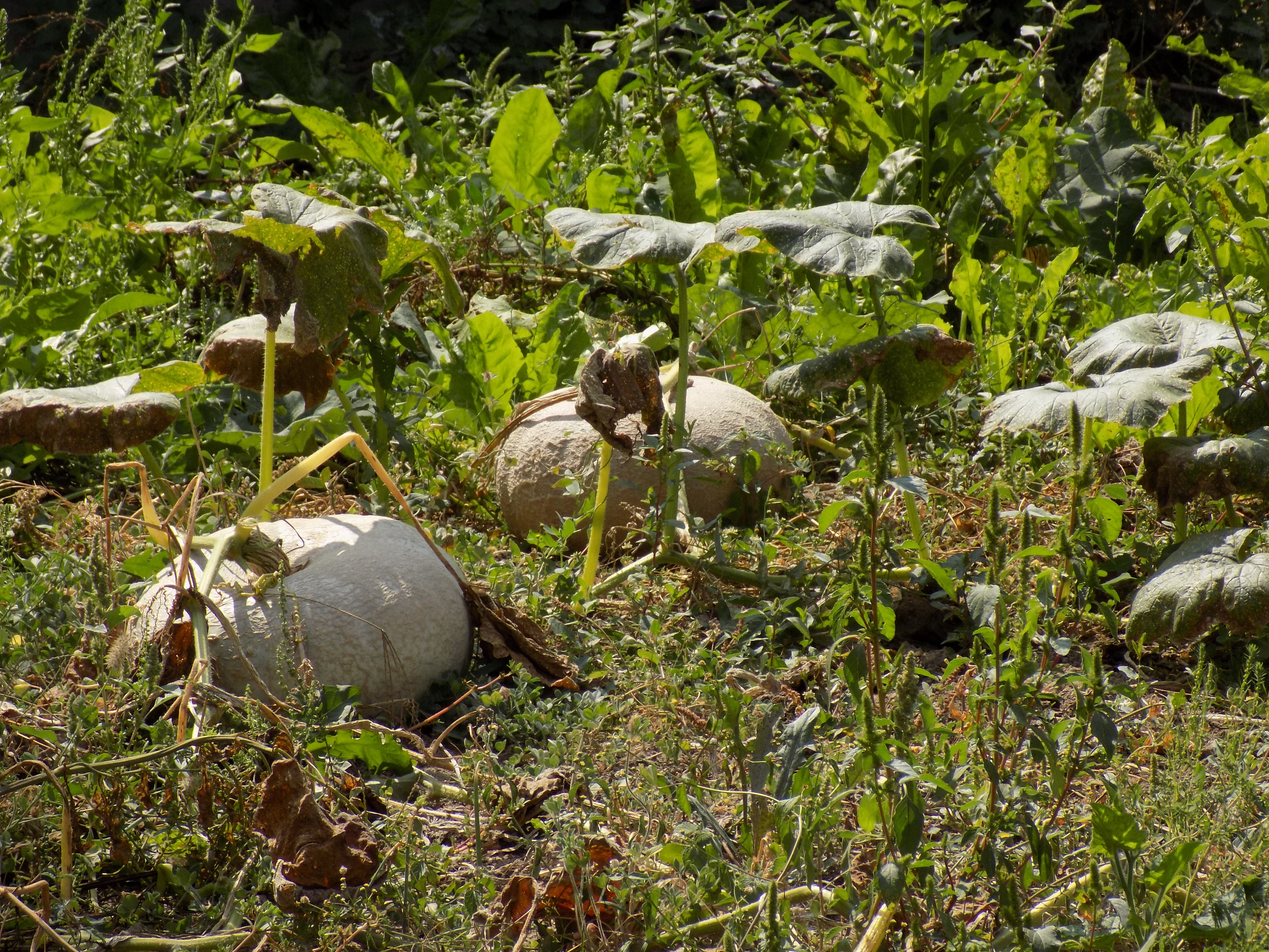 Gourds grow best in the abandoned part of the garden